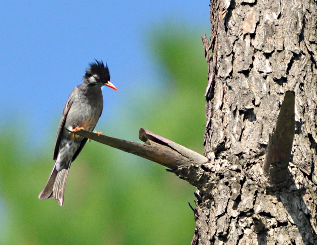 Black Bulbul (Hypsipetes leucocephalus). Solan (Himachal Pradesh). 28-July-2013